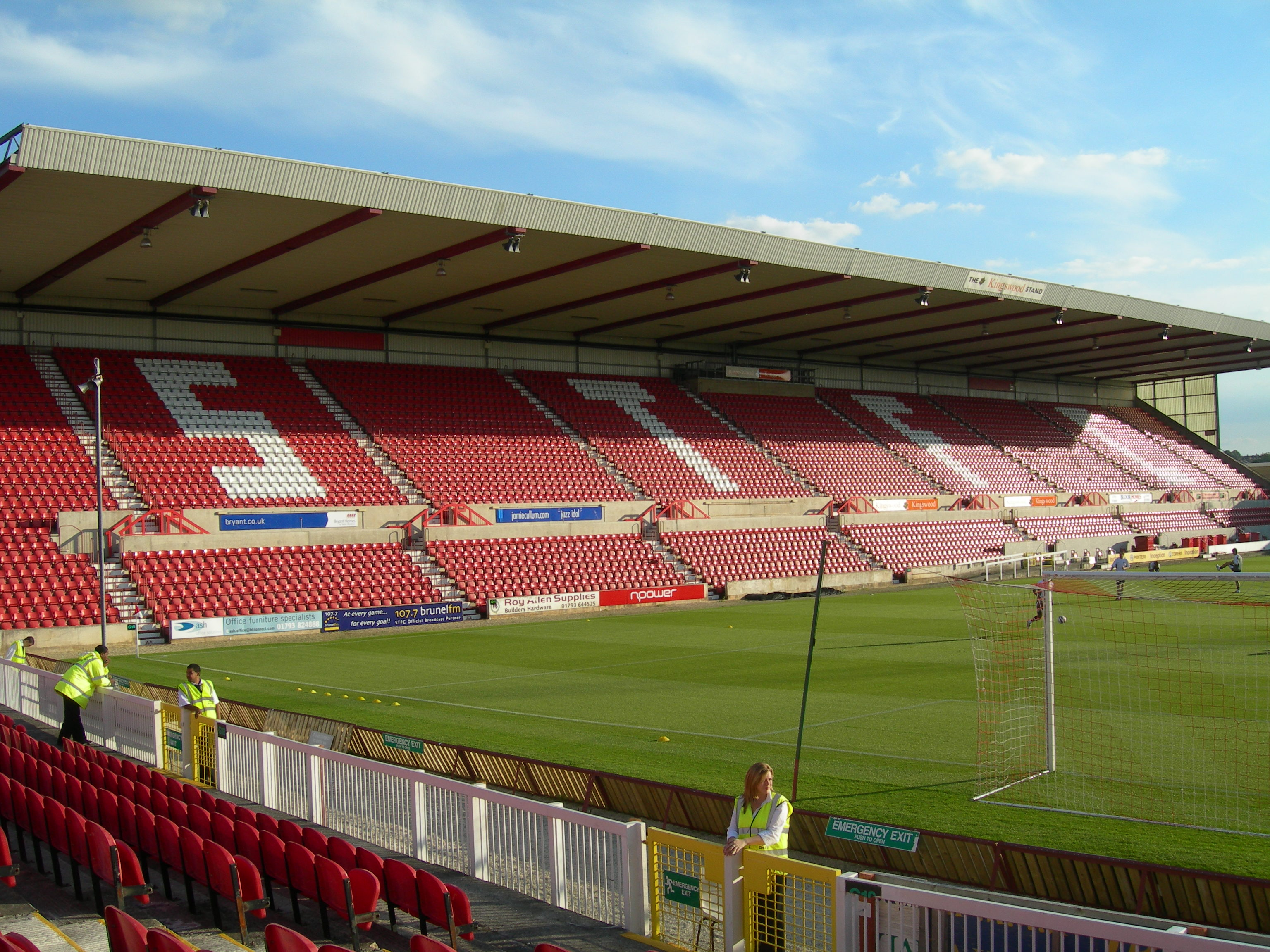 Kingswood stand at the county ground, Swindon, before a game vs Bristol City in July 2007. Own work